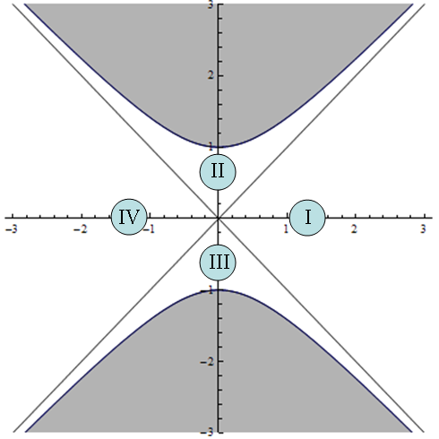 Kruskal-Szekeres-Diagram with hyperbolas of constant radius.